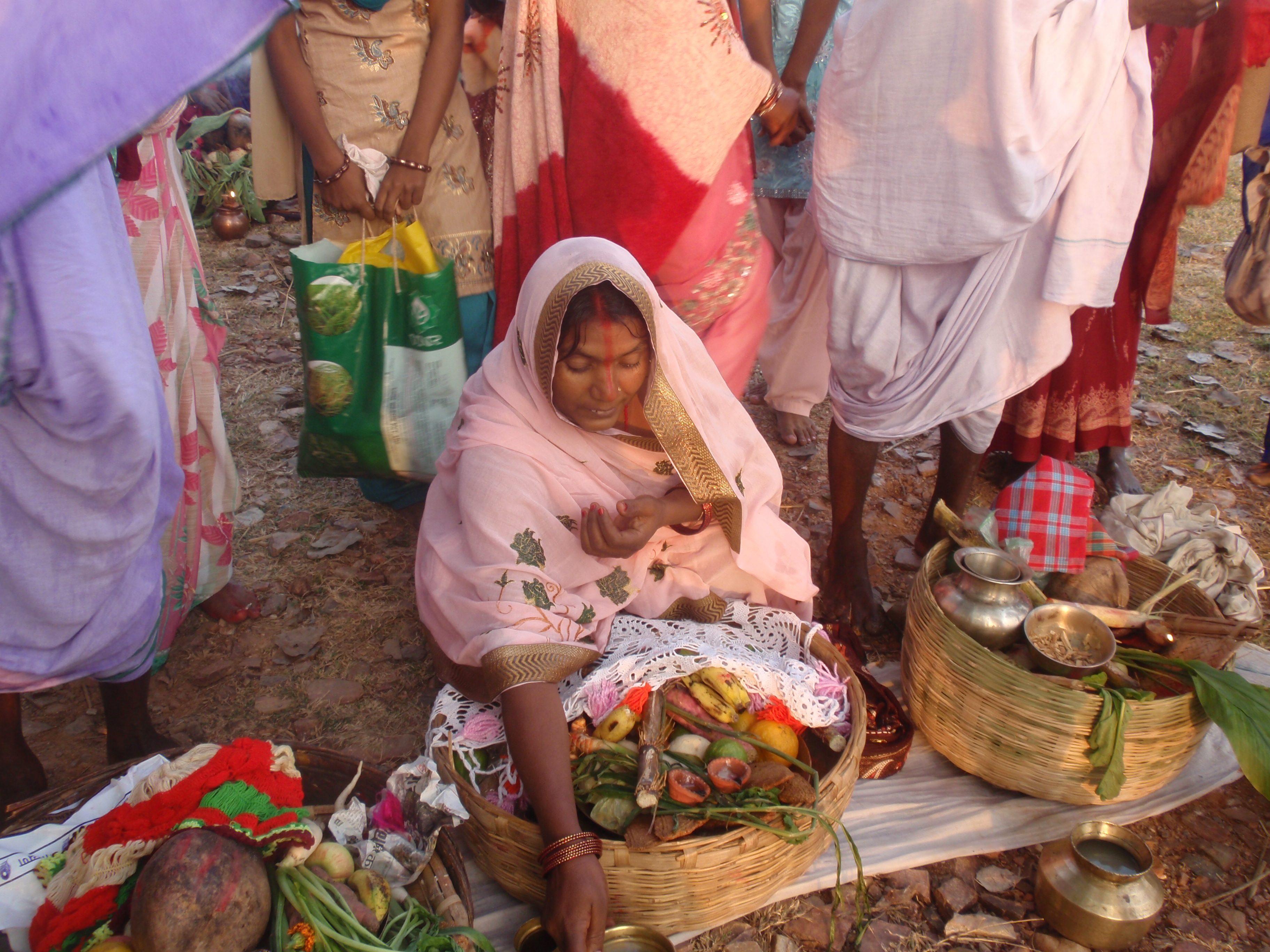 The Hindu women celebrate Chhath